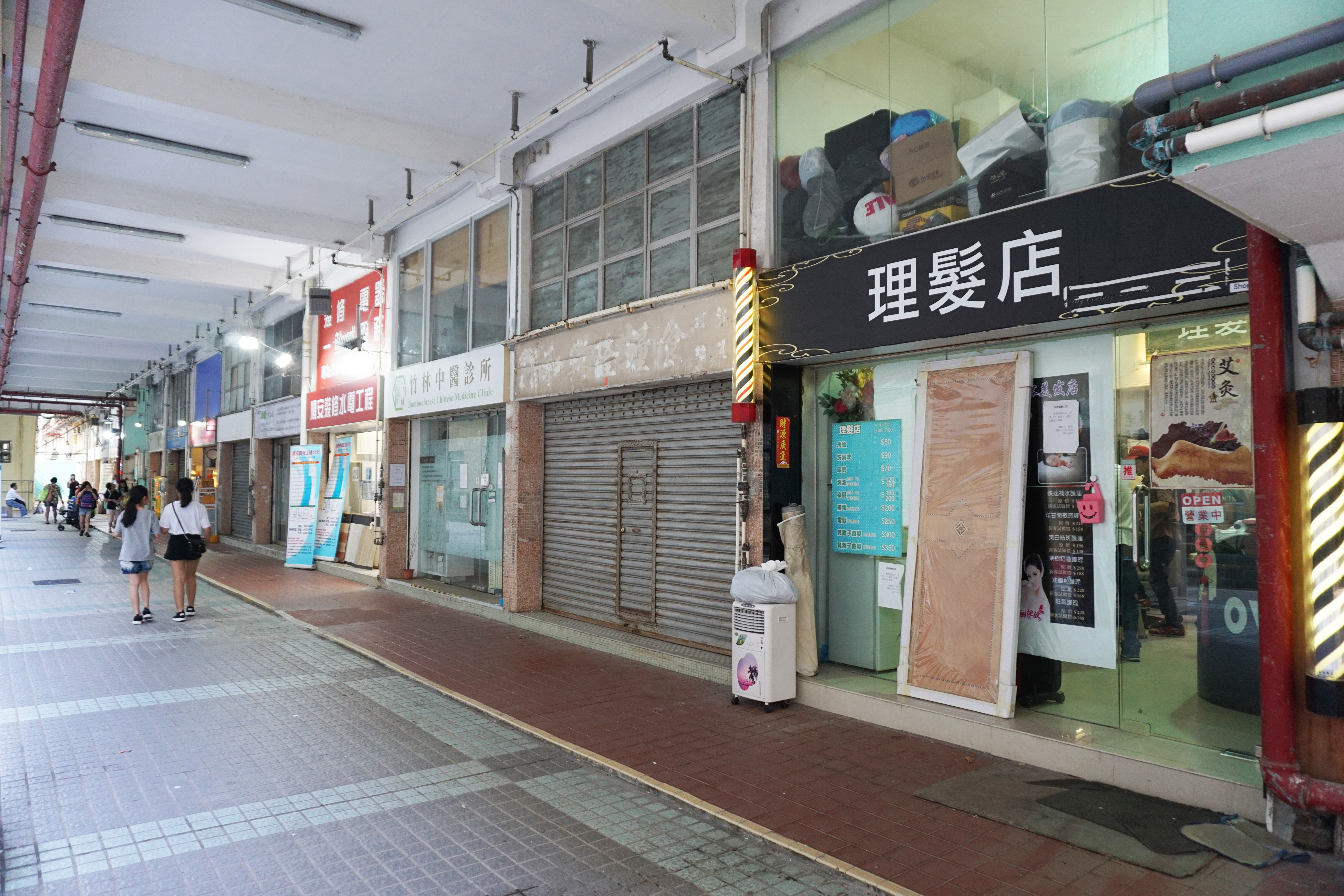 Shun On Estate in Sau Mau Ping, Hong Kong.